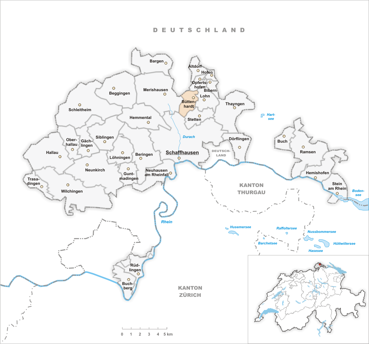 Municipality Büttenhardt